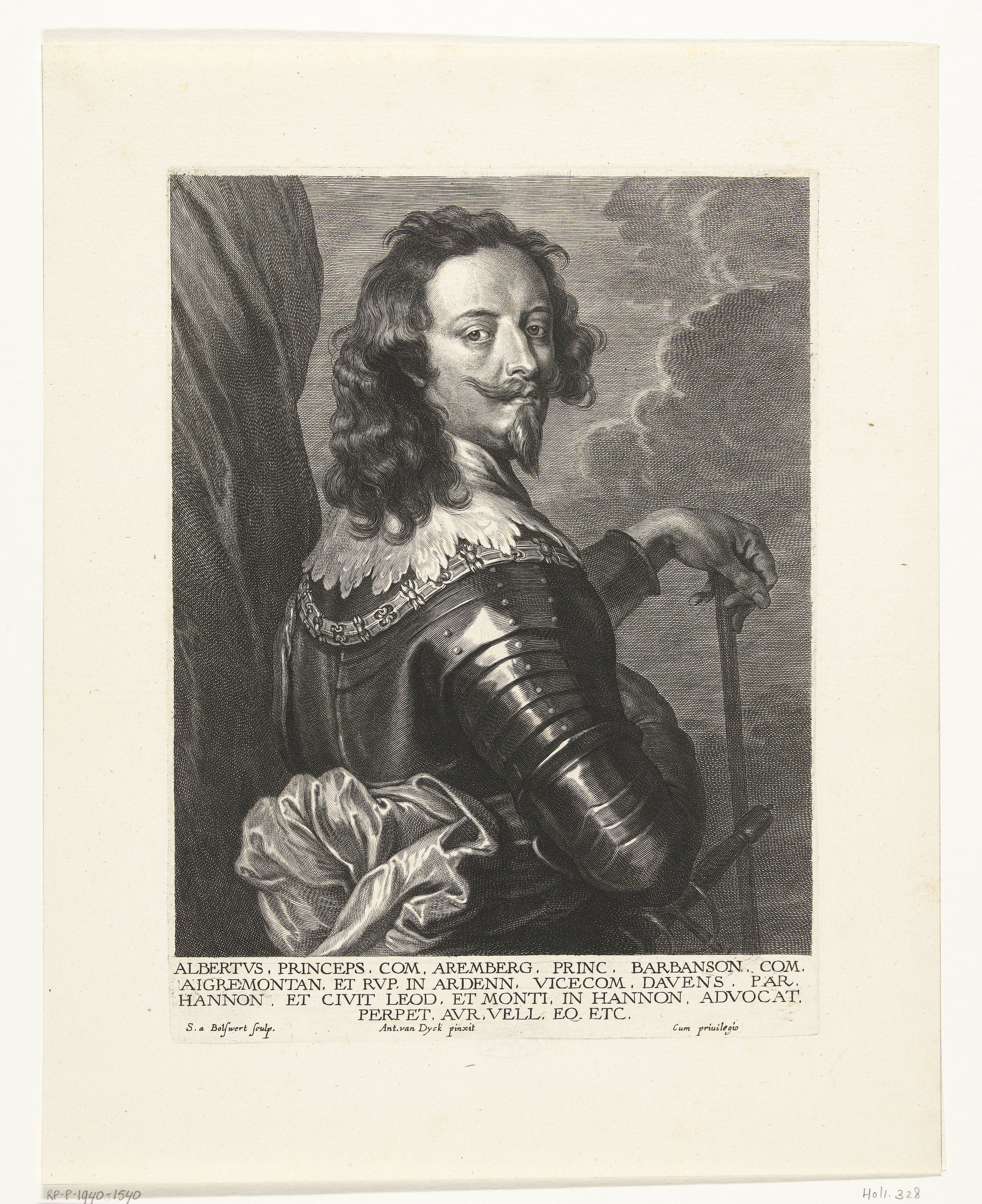 Albert, Prince of Barbançon, engraved by Schelte a Bolswert from a portrait by Anthony van Dyck